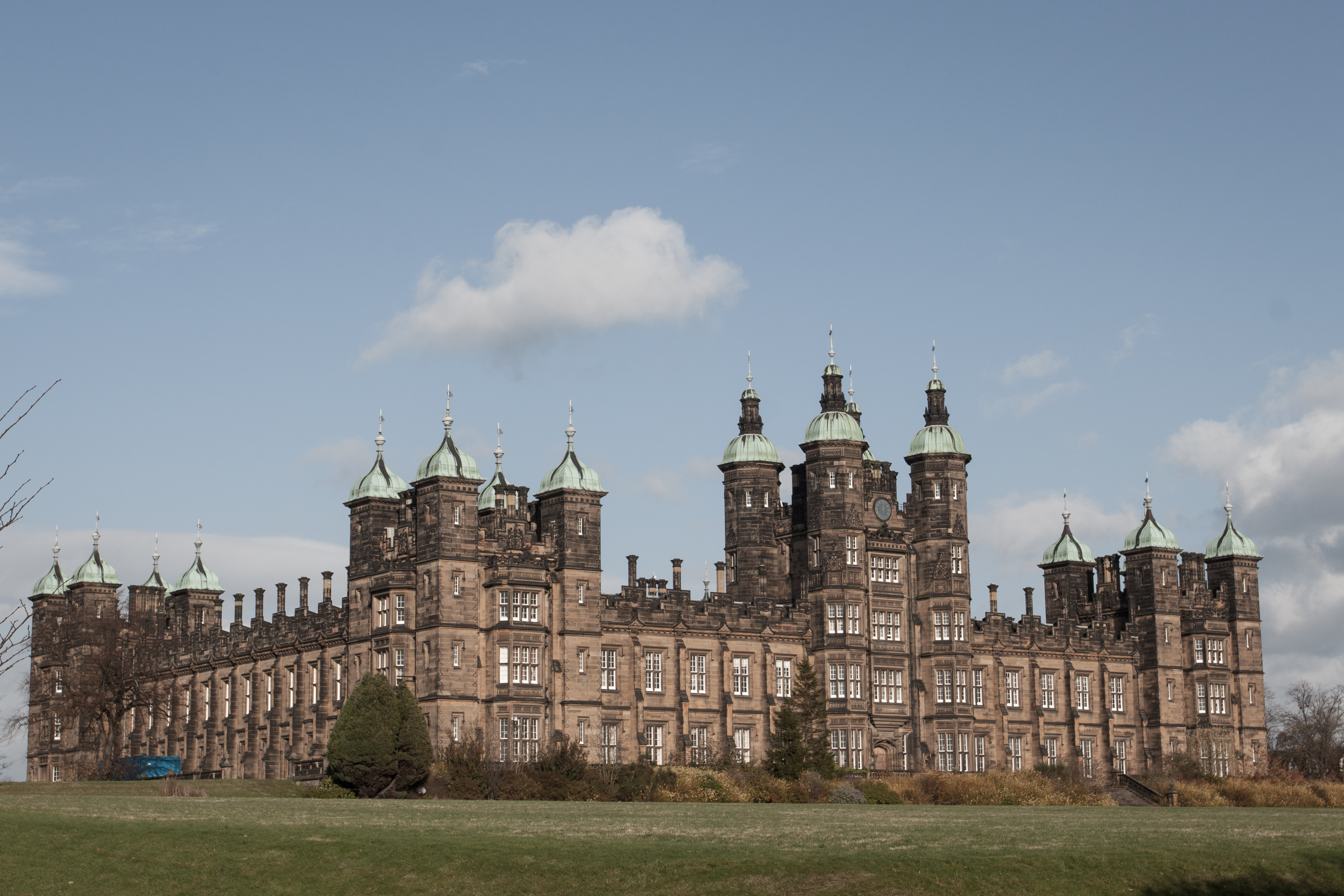 Edinburgh, West Coates, Donaldson's School For The Deaf Wikidata has entry Q17570869 with data related to this item.